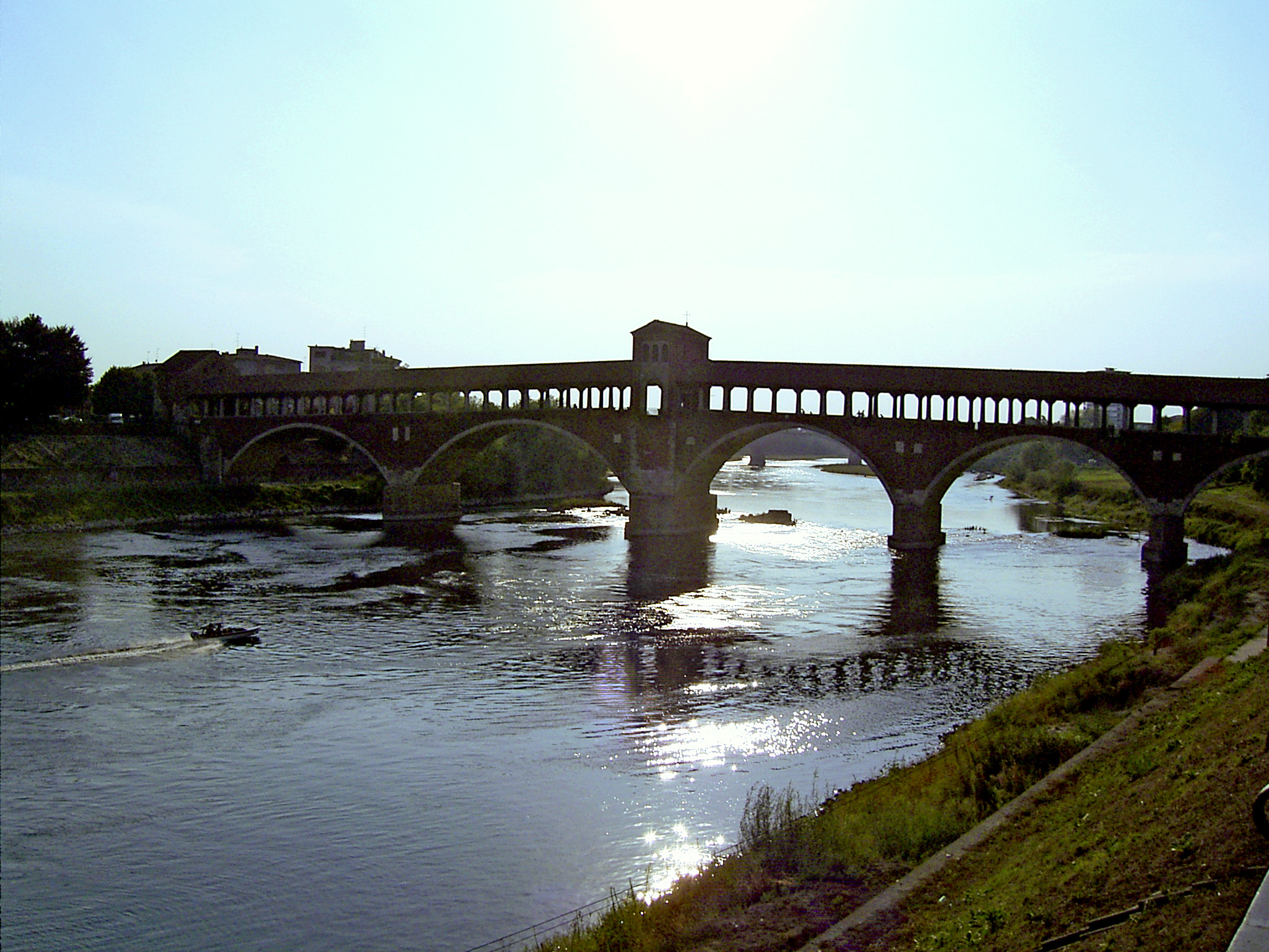 Ponte Vecchio (Old Bridge), Pavia (Italy)